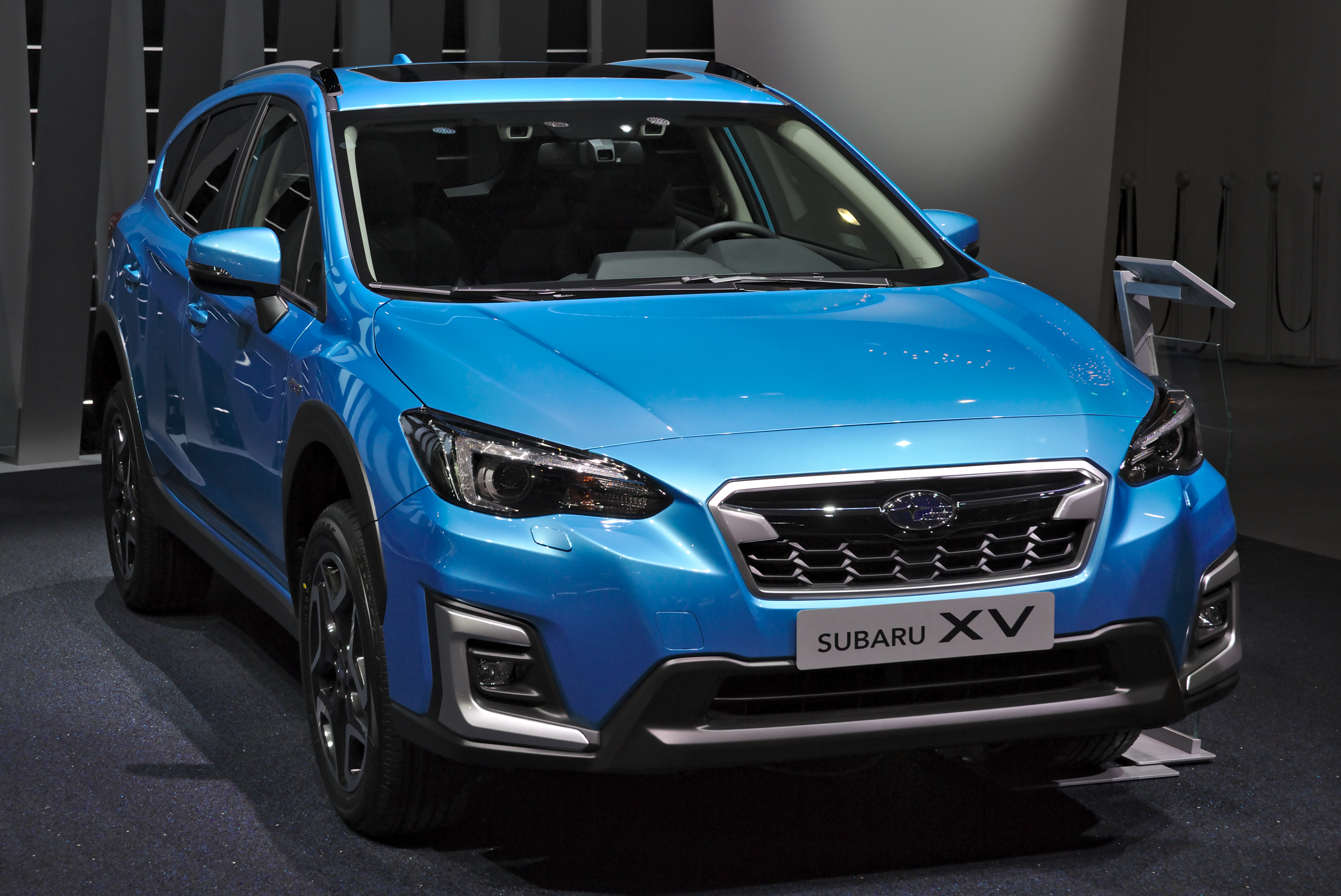 Subaru XV e-Boxer at Geneva Motor Show 2019